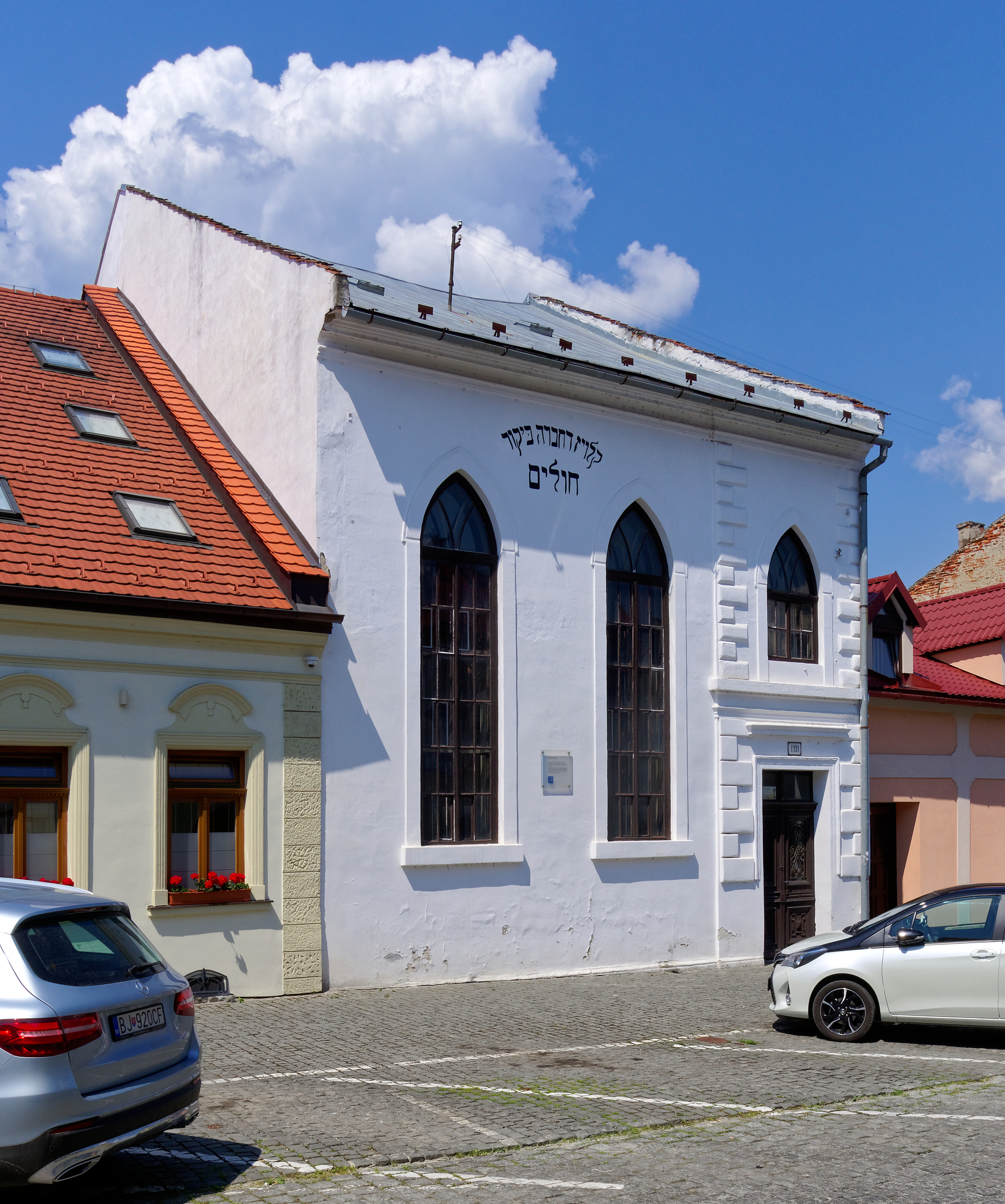 Synagogue in Bardejov